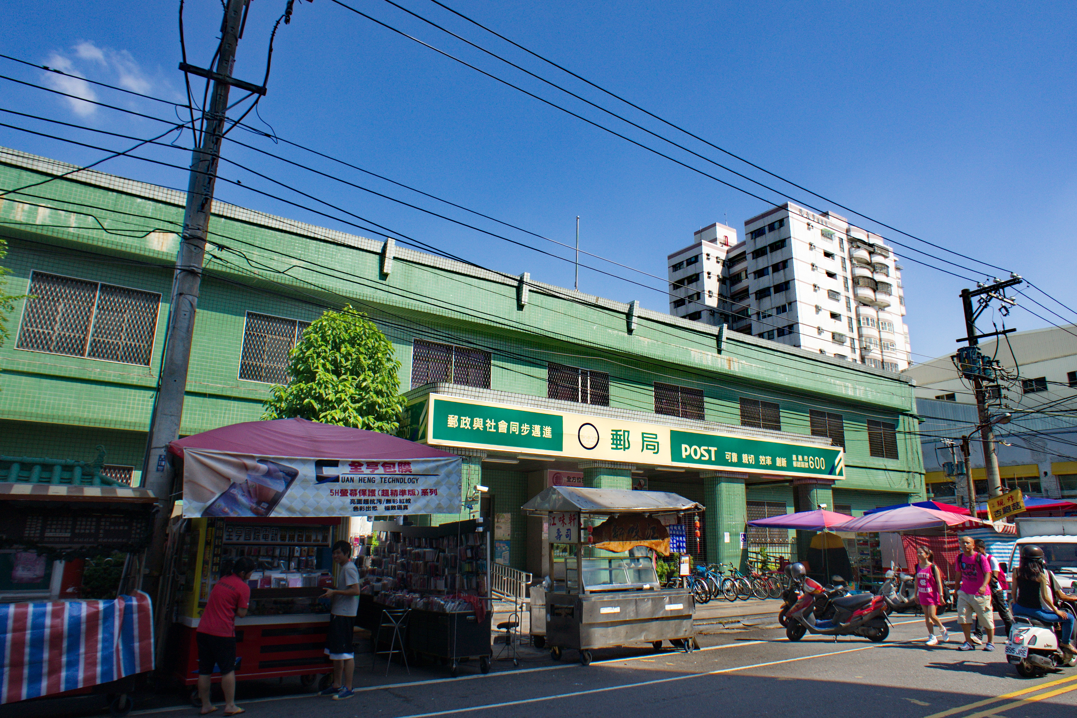 Chiayi Wenhua Road Post Office (Chiayi Branch 901) (No. 134 Wunhua Road, Chiayi, Taiwan)